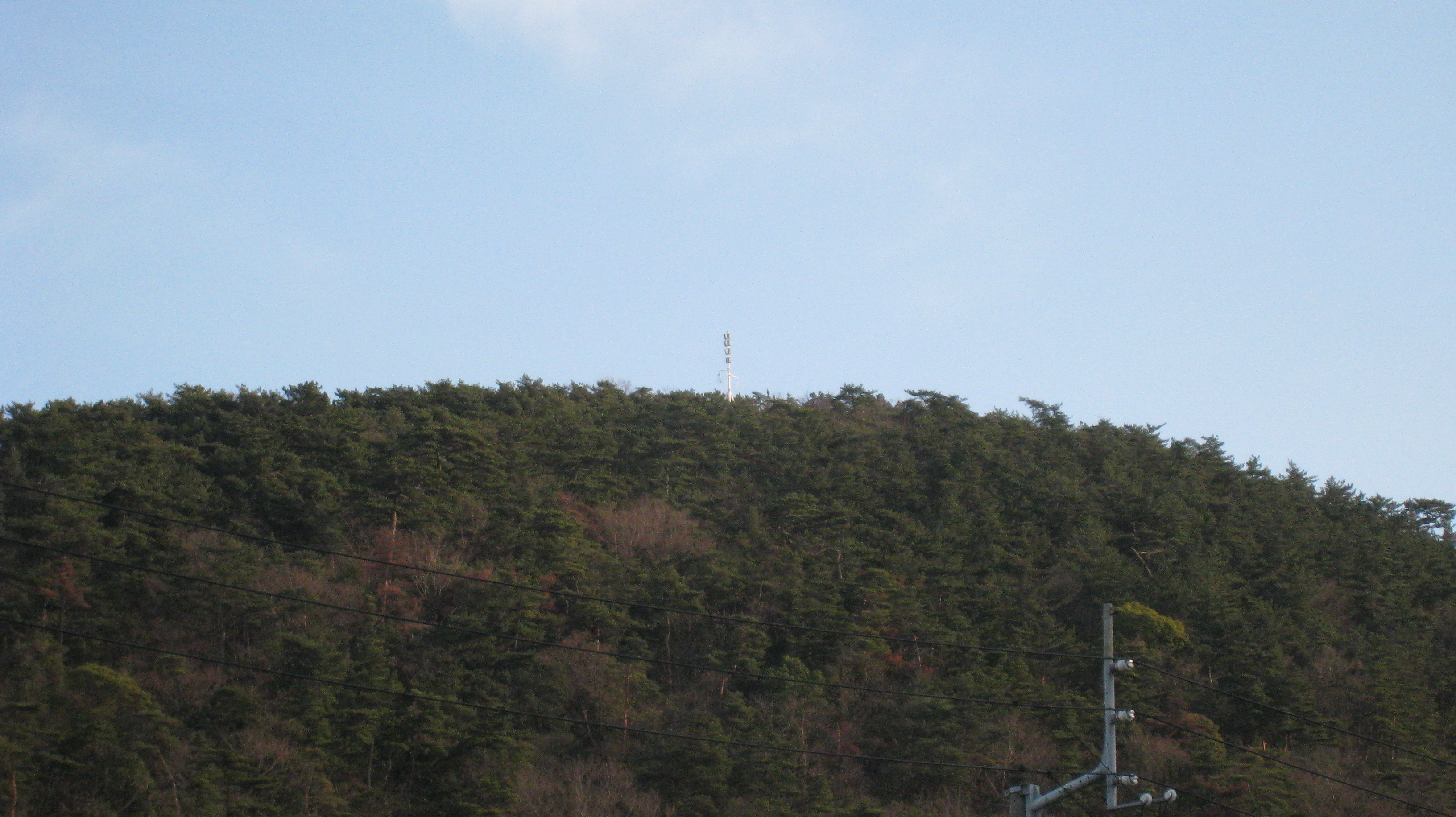 Ritsurin-kita(Takamatsu-ritsurin) relay station.